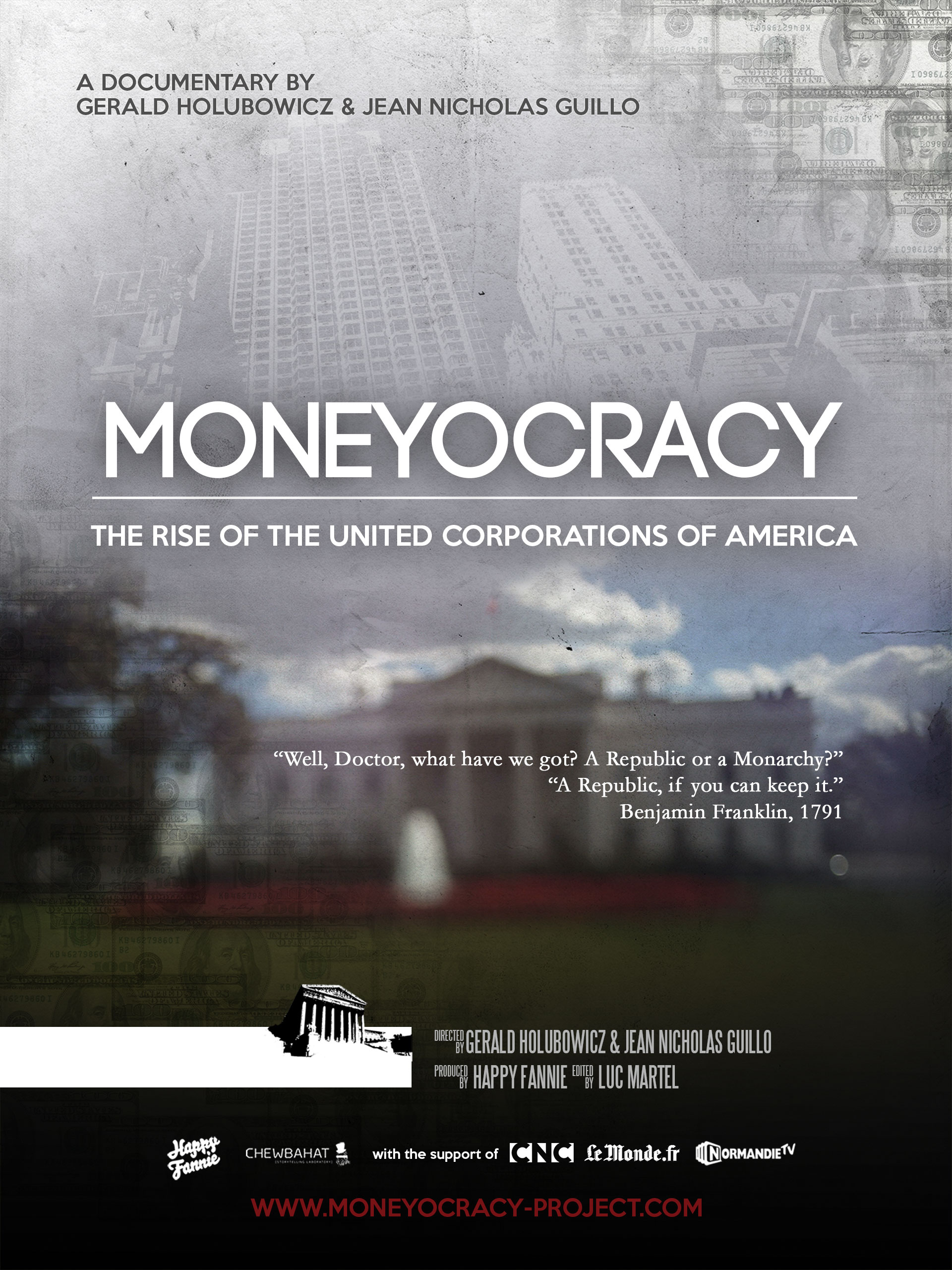 Official release poster for Moneyocracy, the rise of the United Corporations of America. Moneyocracy is a transmedia documentary about money in politics and the Citizens United v. FEC supreme court decision. The poster art copyright belongs to Gerald Holubowicz/Chewbahat.com